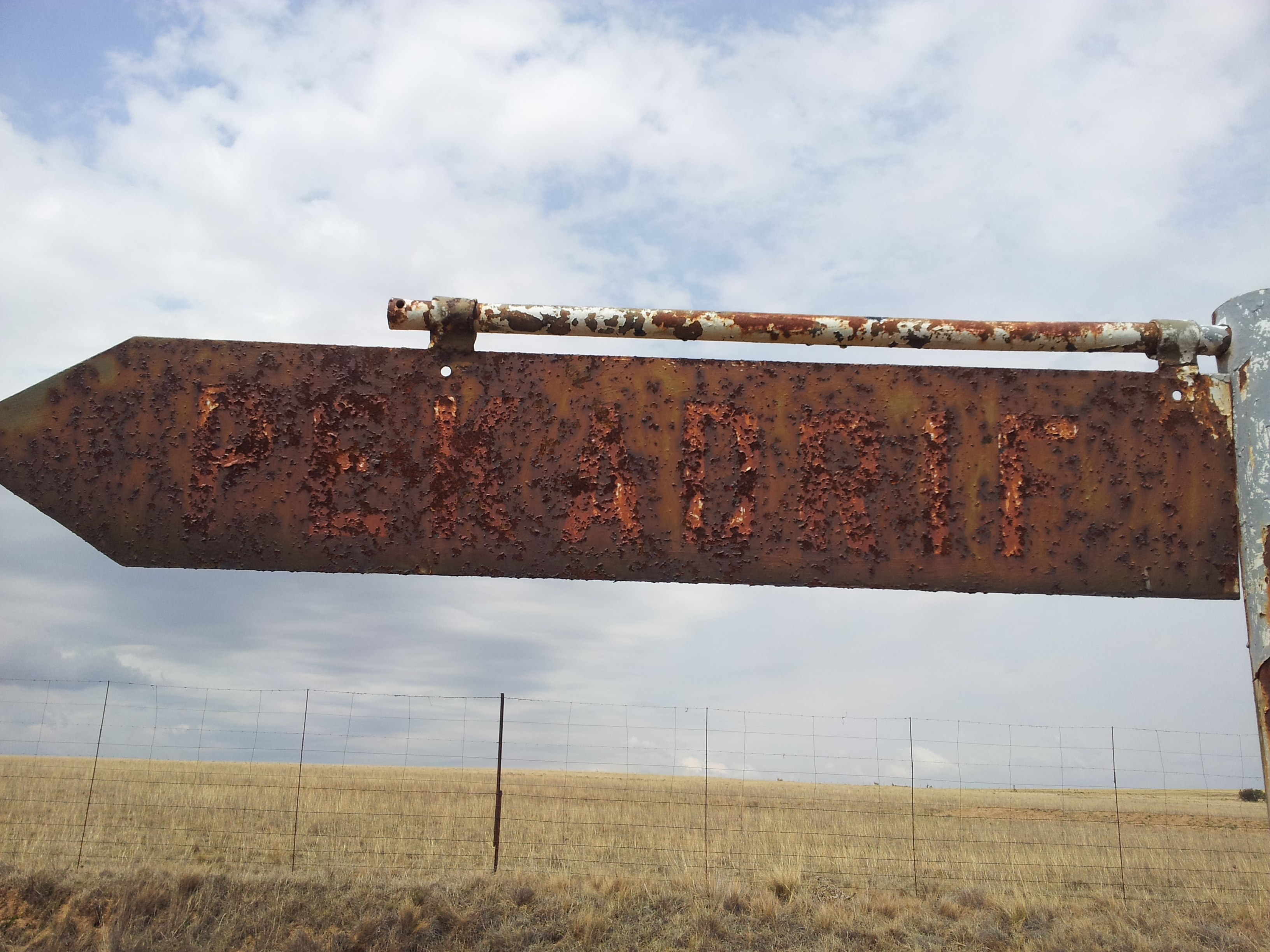 A Sign showing Peka Bridge